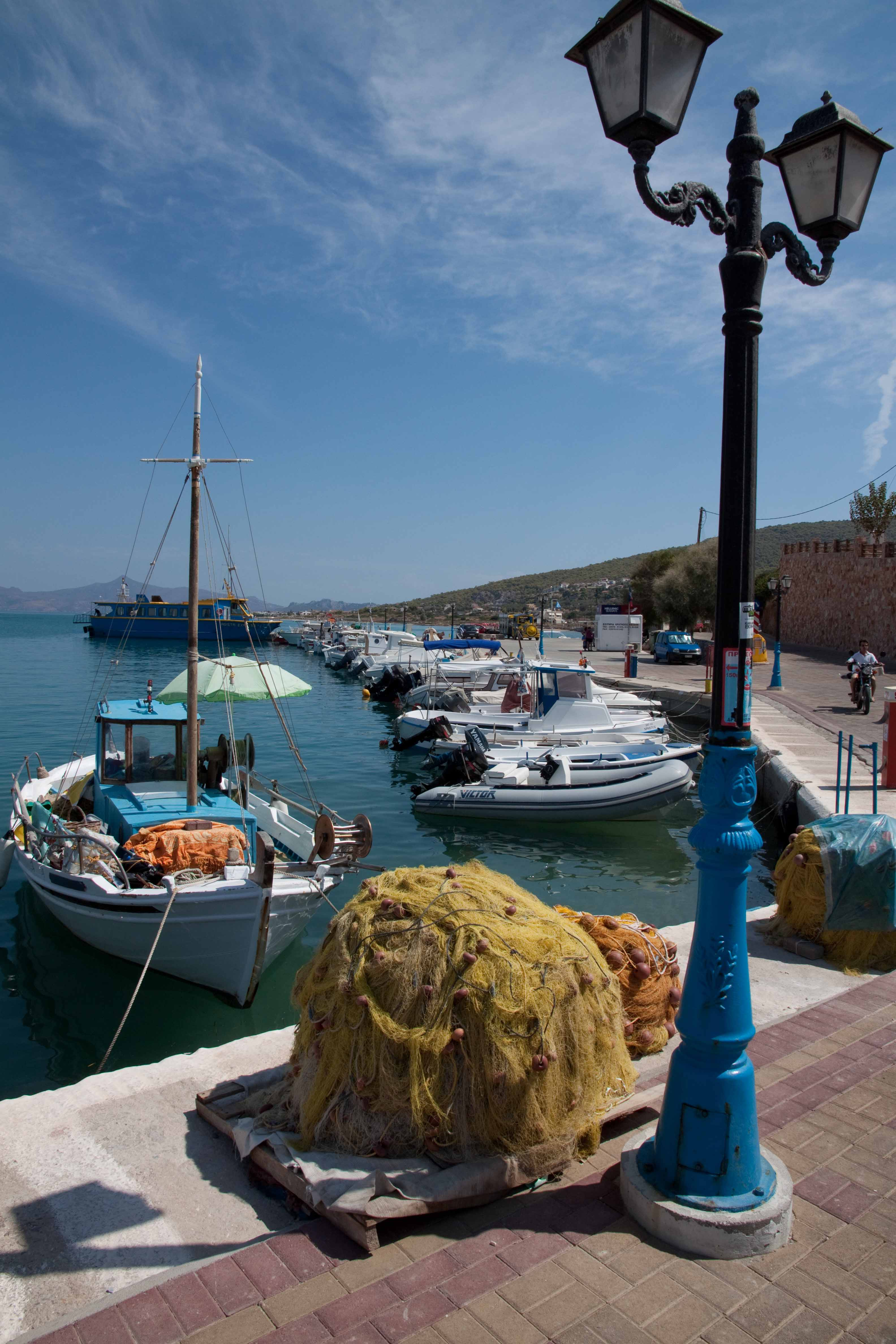 Fishing boat and nets at Megalochori, Agkistri Island, Greece